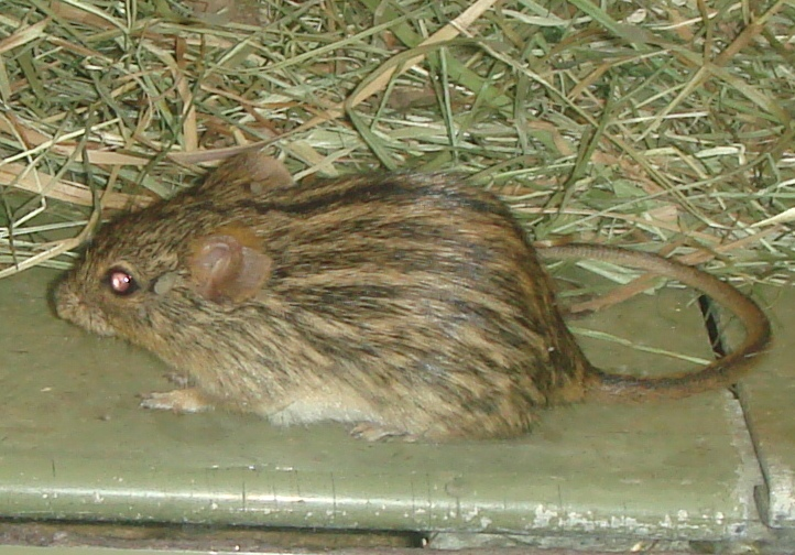 Photo of a striped grass mouse (Lemniscomys barbarus) taken in Frankfurt Zoo by ElinorD on 9 April 2007 I just want to add that I e-mailed Frankfurt Zoo just to check that the striped grass mouse which they have there really is the Lemniscomys barbarus species. I received an e-mail this morning confirming that it is. ElinorD 09:51, 17 April 2007 (UTC)